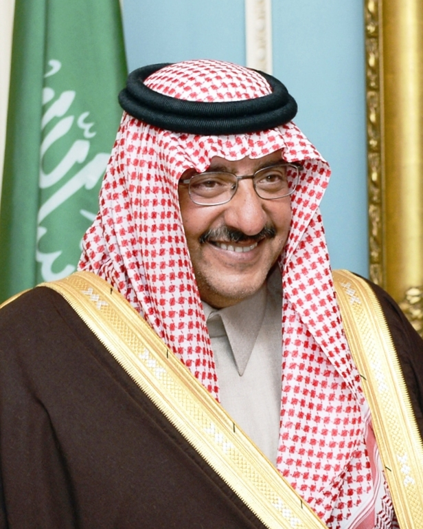 Interior Minister of Saudi Arabia, Prince Mohammed bin Naif bin Abdulaziz at the U.S. Department of State in Washington, D.C., January 16, 2013. [State Department photo/ Public Domain]